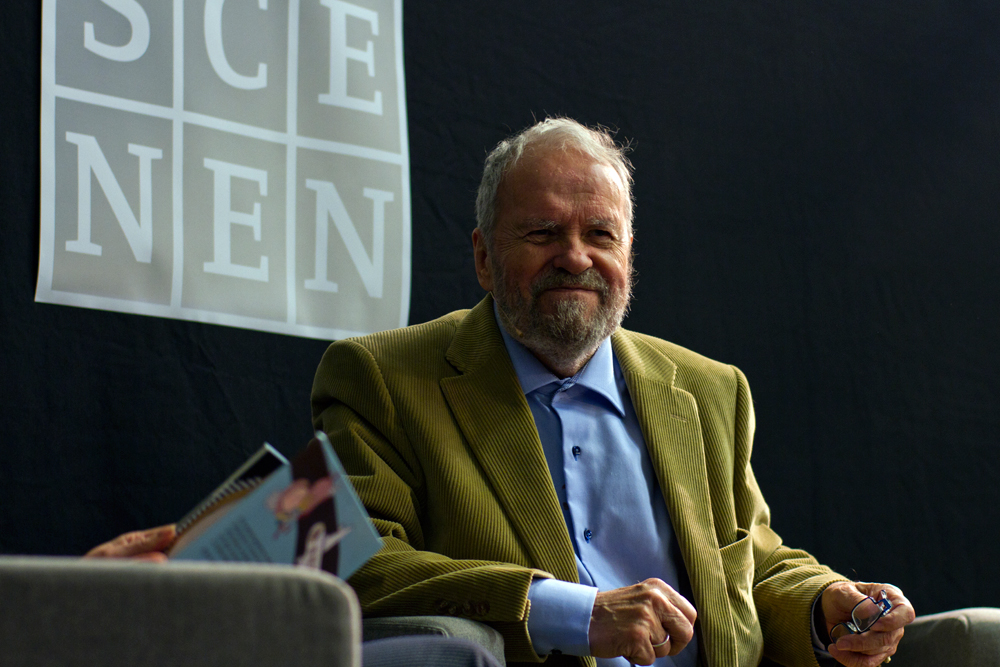 Danish author and priest Johannes Møllehave, at the danish book fair "Bogforum 2011"